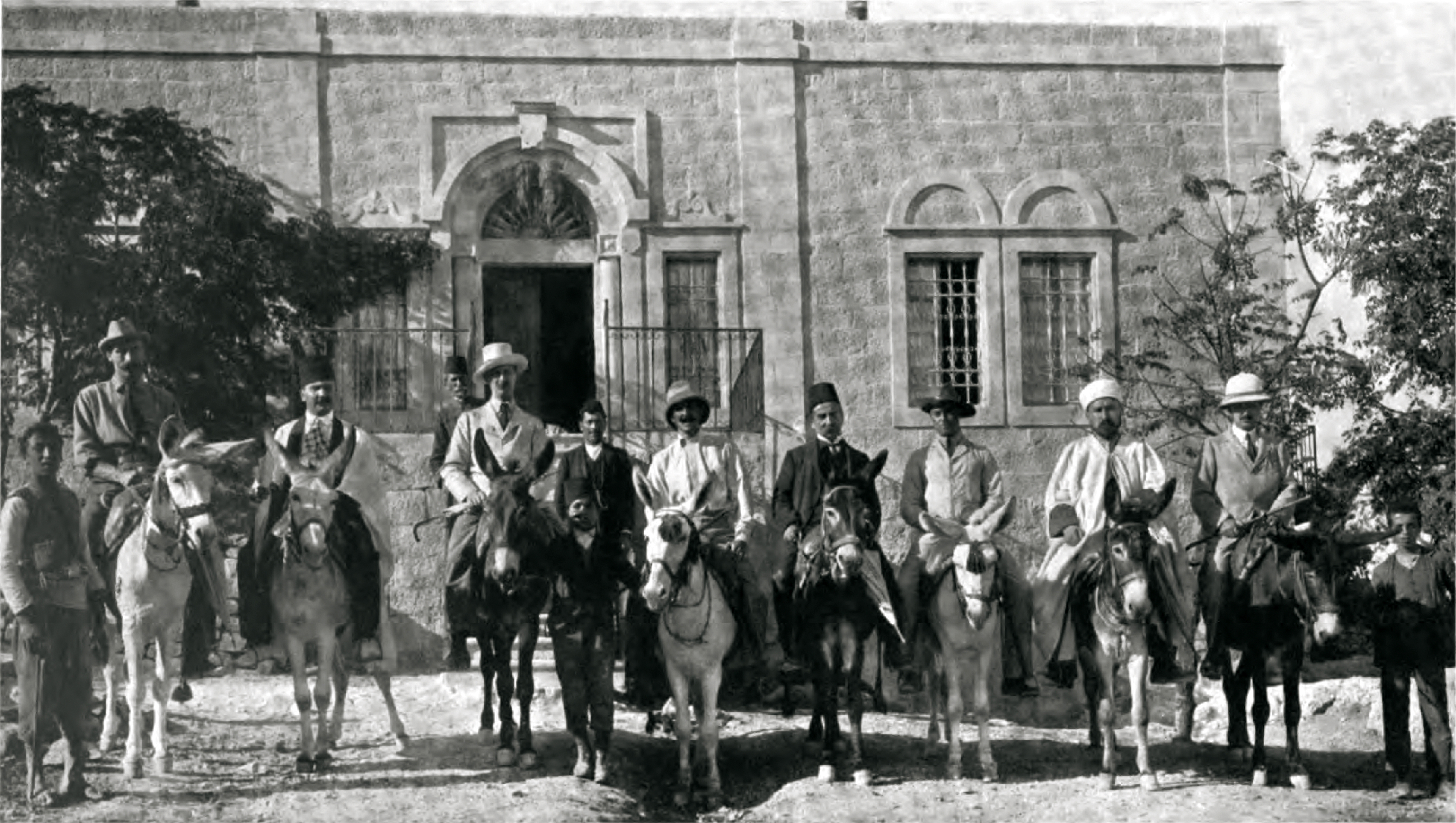 Members of the Parker mission in Jerusalem. From left to right: Robin Duff, Habip Bey, Montagu Parker, Cyril Foley, Hagop Makasdar, Cyril Ward, Abdulaziz Mecdi Effendi, Clarence Wilson.